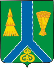 Tymovsky rayon (Sakhalin oblast), coat of arms